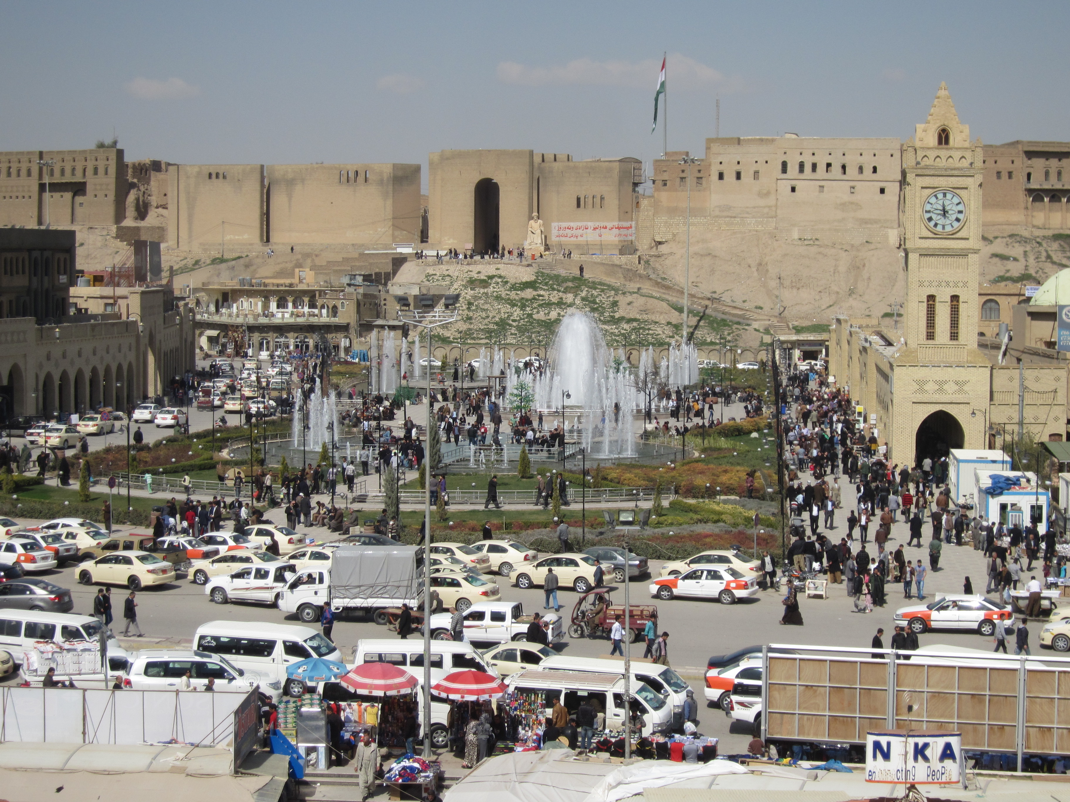 Arbil Citadel from the 3rd floor of the opposite shopping center.